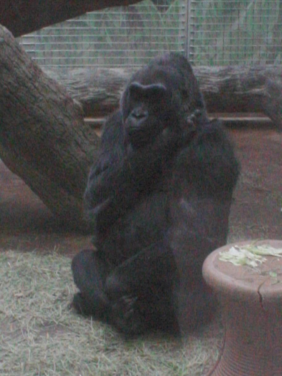 The first in-Zoo born Gorilla, Colo at the Columbus Zoo and Aquarium, photographed March 5, 2009 by User:Adolphus79.